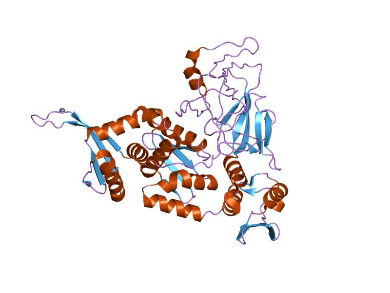 Cartoon representation of the molecular structure of protein registered with 1dq3 code.